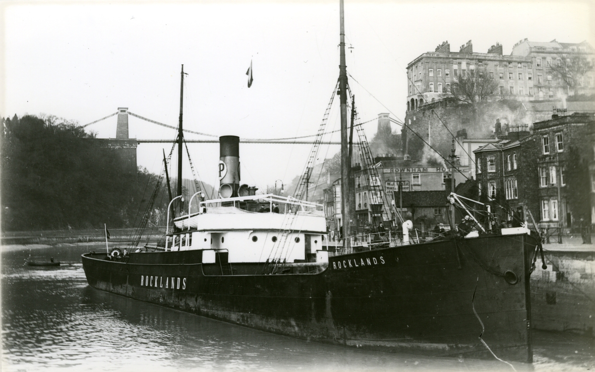 Streamship ROCKLANDS built at Irvine's Shipbuilding & Drydock Co. Ltd., West Hartlepool/England (yard № 37, launched: 10-09-1881, delivered: 09-1881) for Hardy, Wilson & Co, 1896 sold to Gebr. Petersen, Flensburg/Germany, 1913 sold to F. W. Fischer, Rostock/Germany, and renamed FRANZ FISCHER, 08-1914 British prize at Sharpness, 01-02-1916 torpedoed by German submarine SM U 17 and sunk near Kentish Knock.